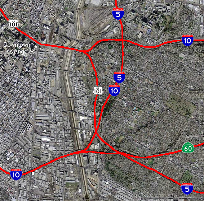 The East Los Angeles interchange complex